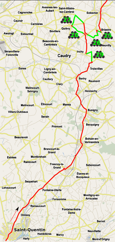 Map of Paris-Roubaix 2017: part 2